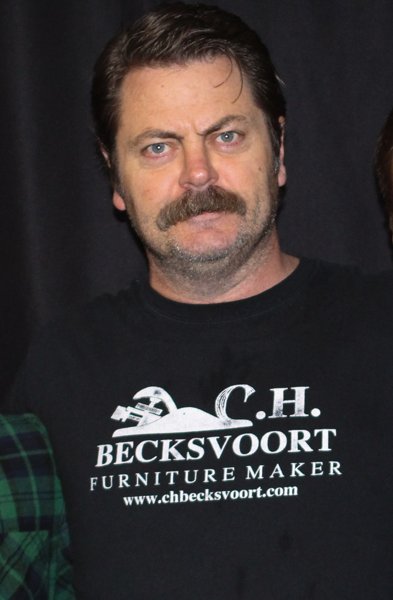 Actor Nick Offerman visiting the campus of University of Maryland Baltimore County on October 12, 2013